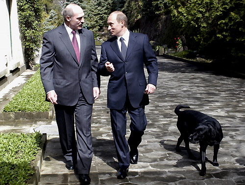 SOCHI. Meeting with Belarusian President Alexander Lukashenko.